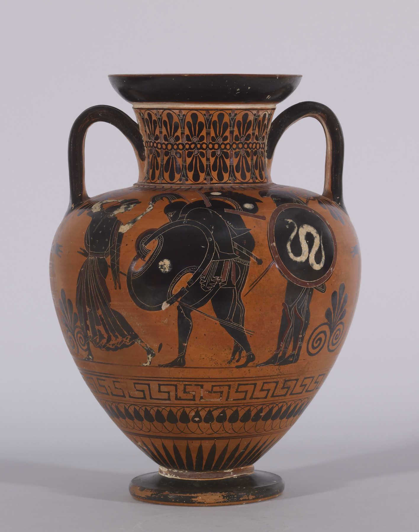 The death of Achilles, which occurred after the events recounted in "The Iliad," was described in another epic poem called "The Aethiopis", which has not survived. On the front of this amphora, the dead Achilles is carried from the Trojan battlefield by his comrade, Ajax. In front of Ajax, a woman leads the way and raises her hand to tear at her hair in a gesture of mourning. Two armed warriors follow behind. On the back, two armed horsemen clash on the battlefield, their horses rearing above a fallen warrior trapped beneath them.